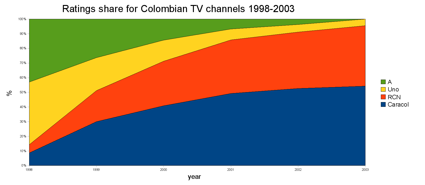 Ratings share for Columbian TV channels 1998-2003 for use in Programadora Legend: green = A, yellow = Uno, red = RCN, blue = Caracol. Information